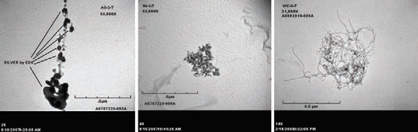 Photomicrographs of airborne engineered nanomaterials: airborne samples of engineered nanoparticles of silver, nickel, and multiwalled carbon nanotubes